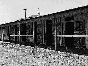 Tanforan Assembly Center — San Bruno, California. Original caption: "Near view of horse-stall, left from the days when what is now Tanforan Assembly center, was the famous Tanforan Race Track. Most of these stalls have been converted into family living quarters for Japanese."